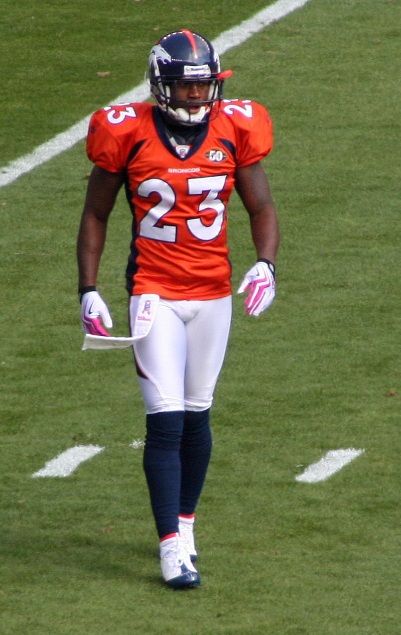 Renaldo Hill, a player with the Denver Broncos football team.